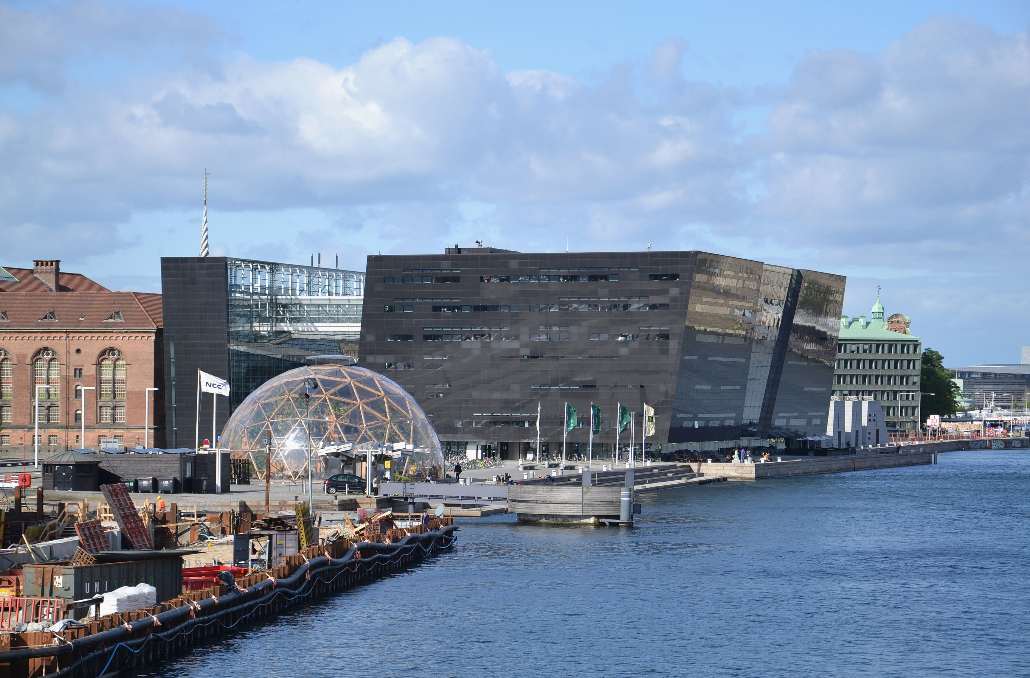 The Black Diamond (Royal Library), Copenhagen, Denmark